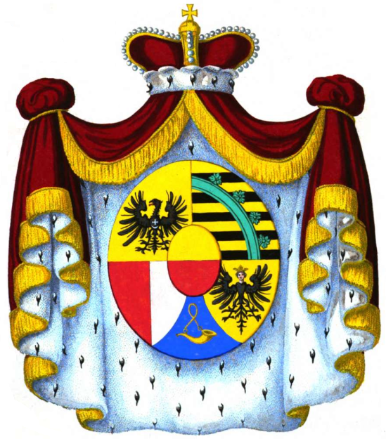 Principality of Liechtenstein